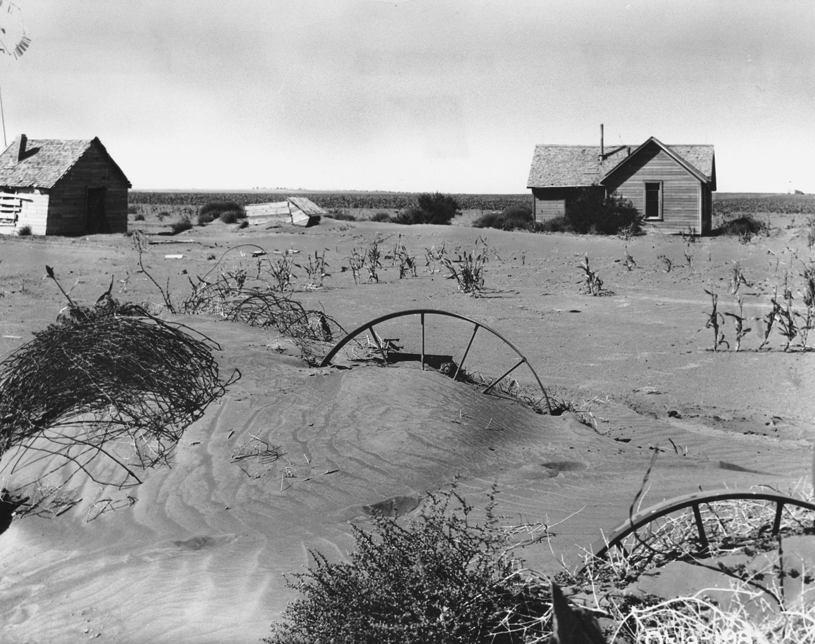 Homestead and farm in Texas County, Oklahoma, USA, during Dust Bowl.